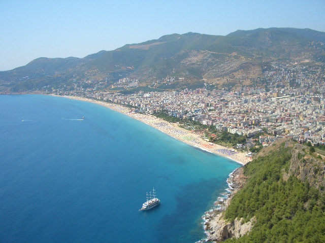 Alanya from the Alanya Castle.